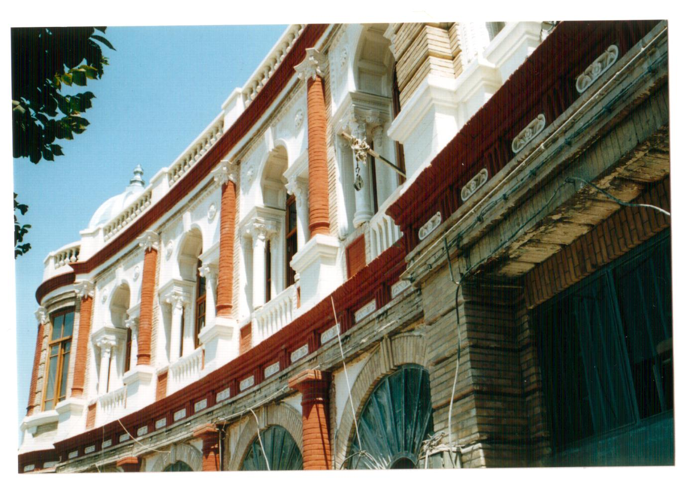 Old and traditional architecture in Hasanabad Square in downtown Tehran, taken by Mani parsa in 2004.